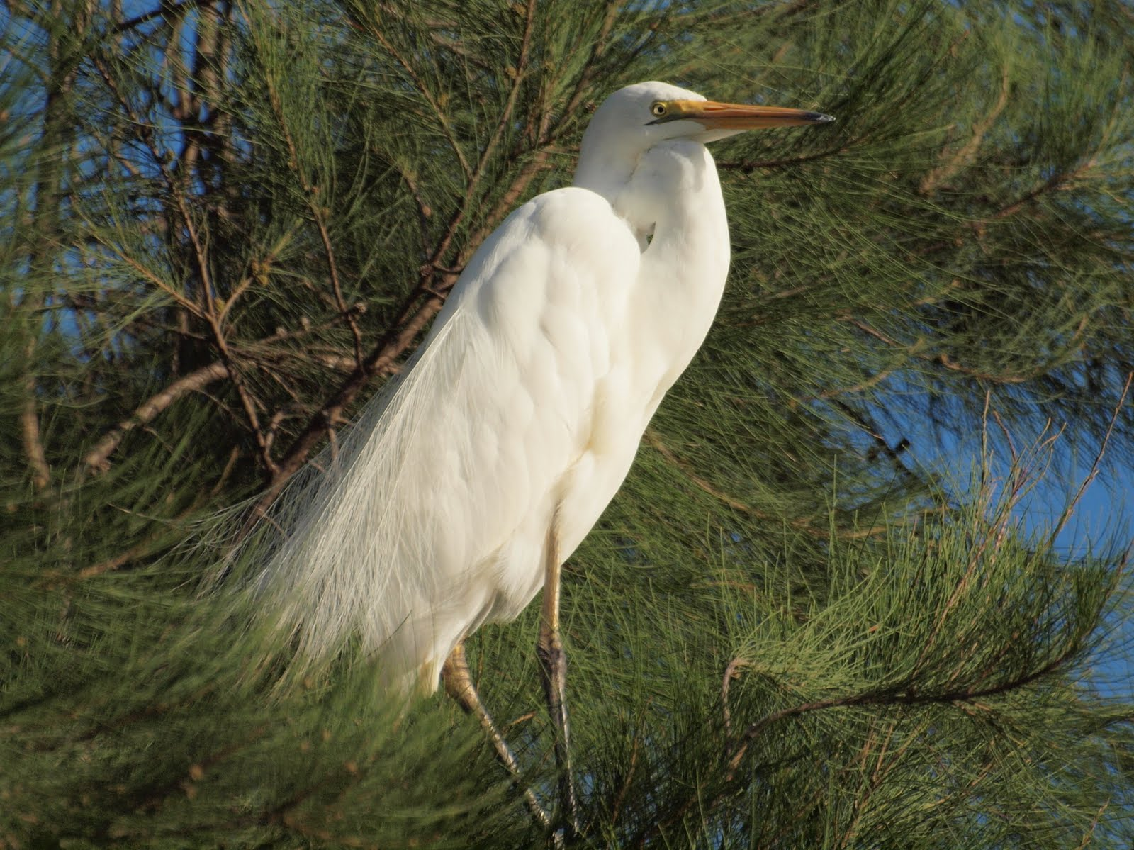 An Eastern Great Egret in Canberra, Australia.